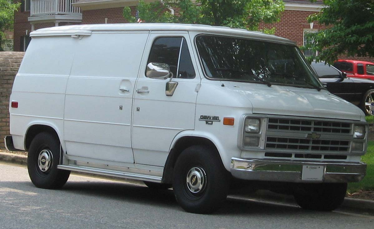 Chevrolet Van photographed in USA.